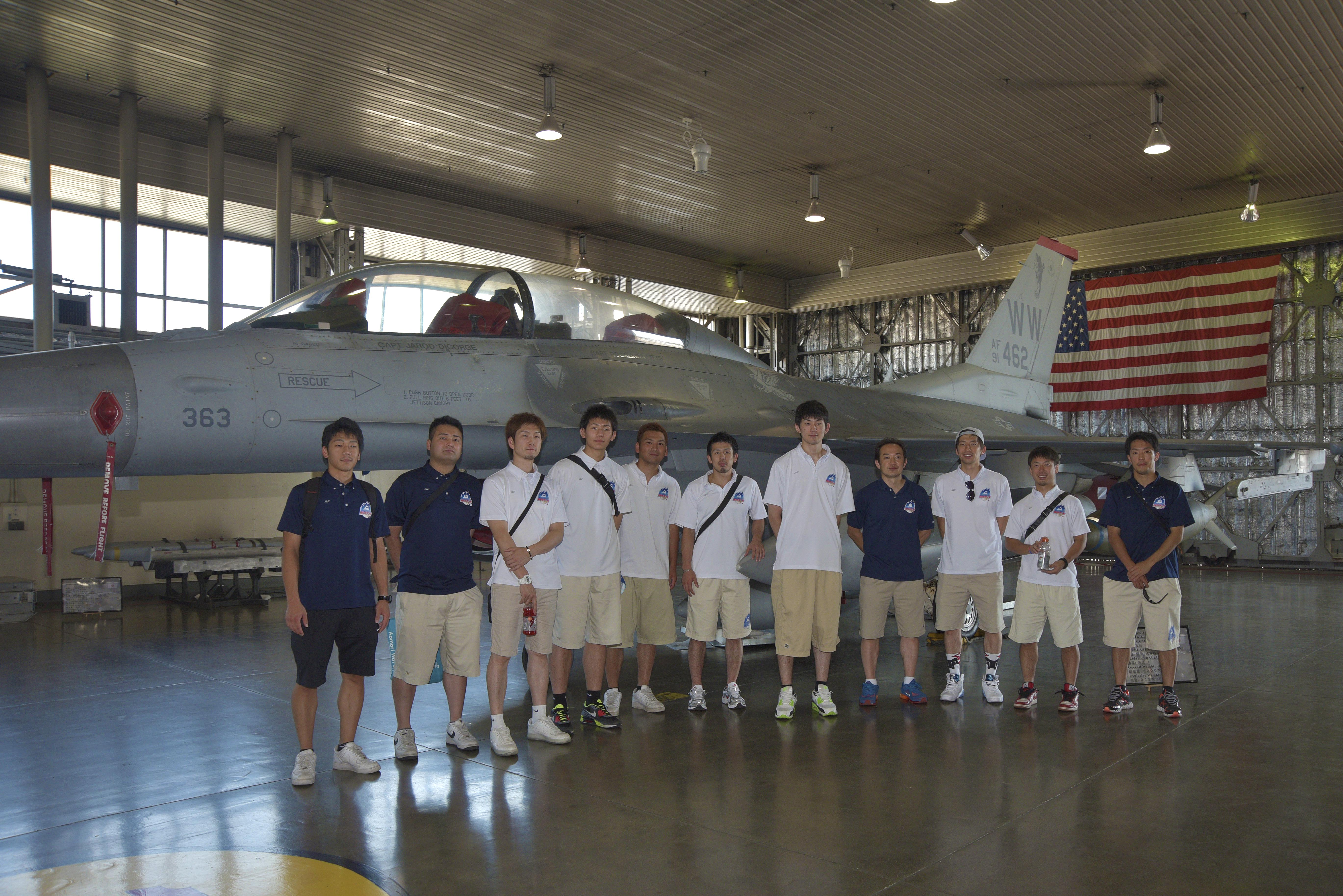 Aomori Wat's